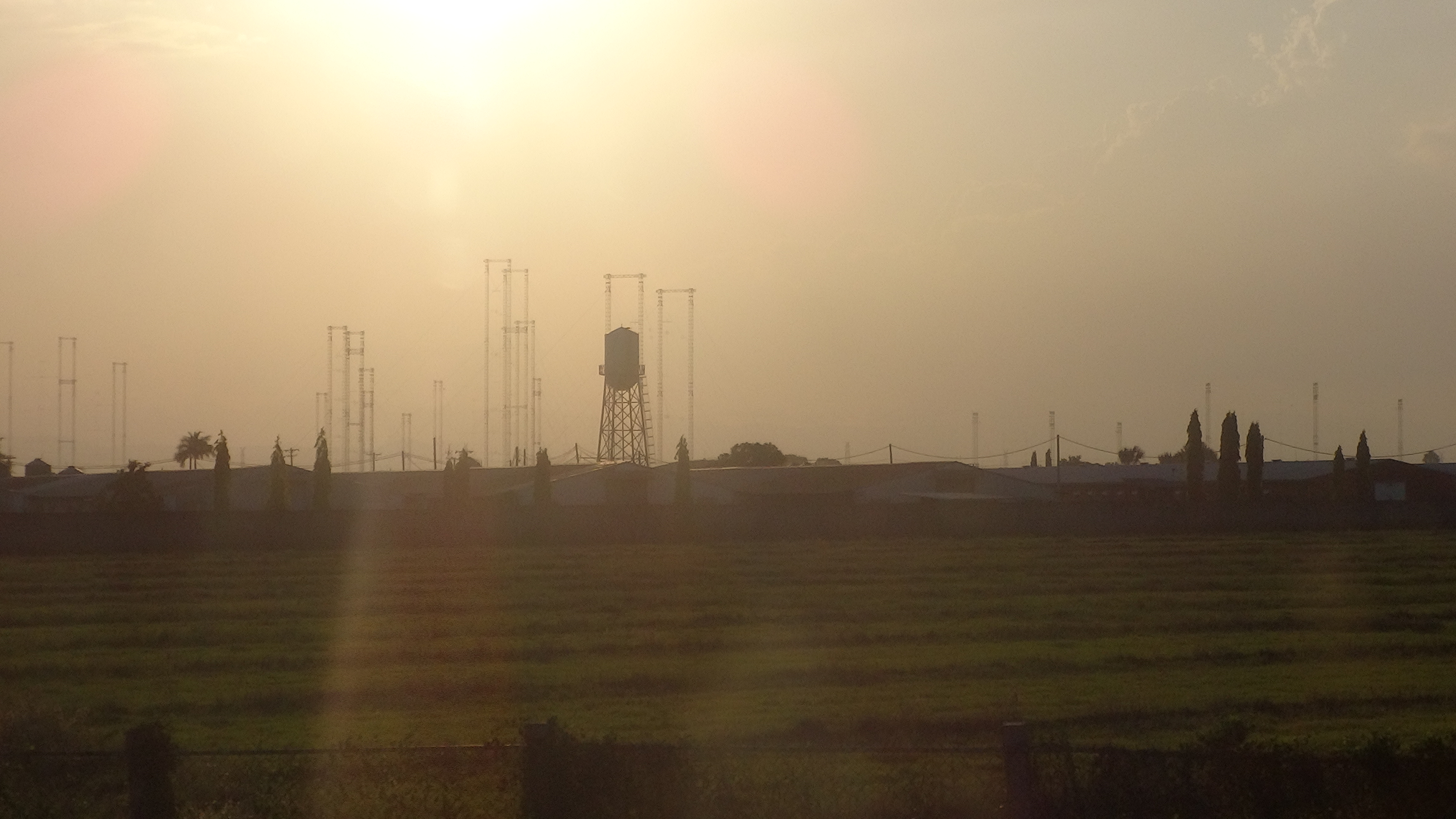 VOA transmitters in Concepcion, Tarlac as seen from SCTEX